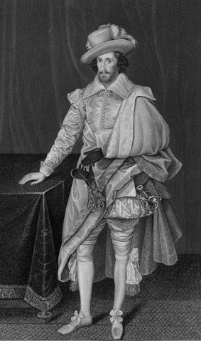 Henry Cary, 1st Viscount Falkland (c1575-1633)